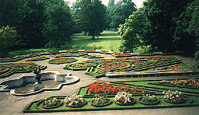 Wilanów Palace garden, Warsaw